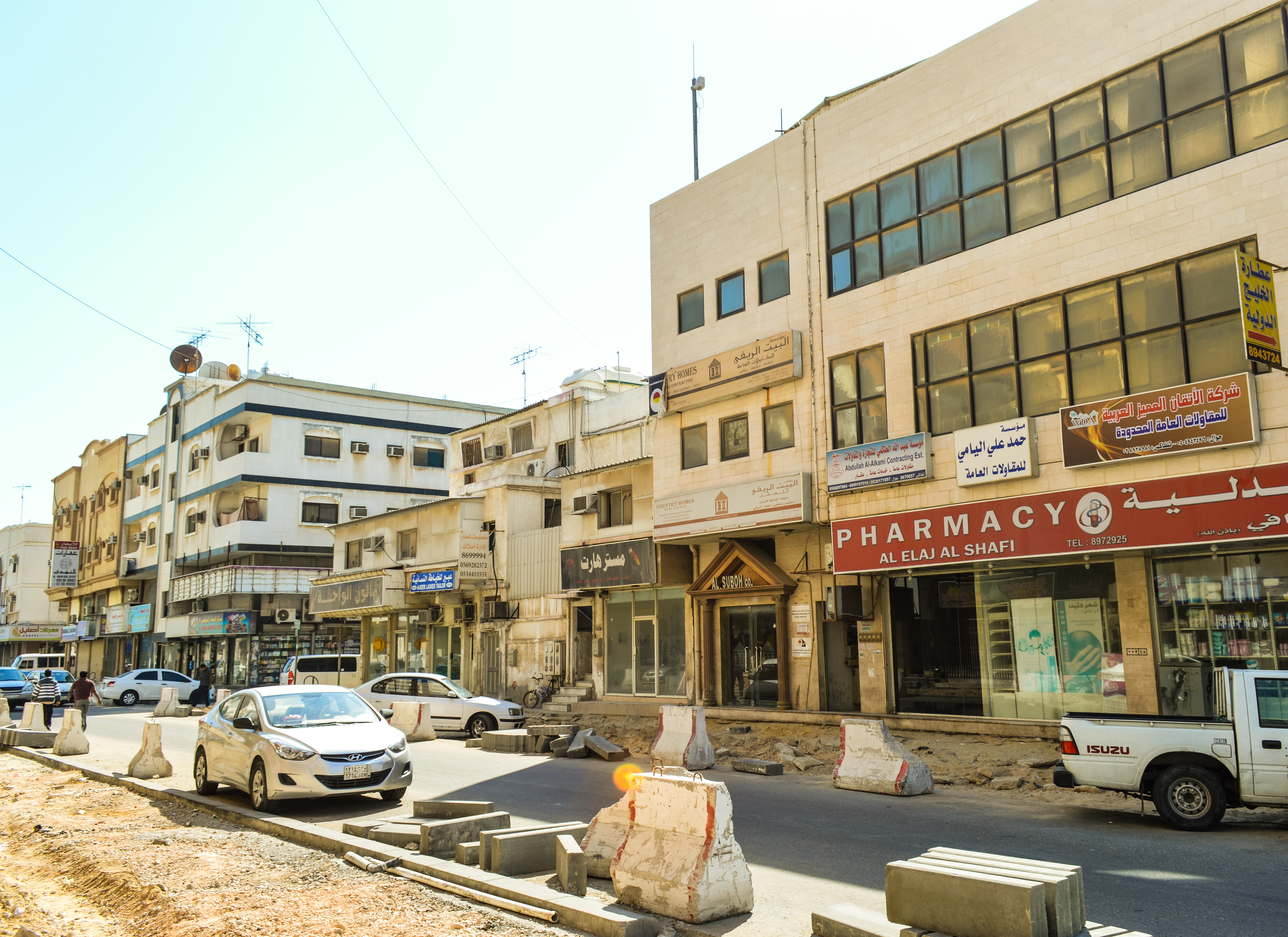 Downtown Al Khobar